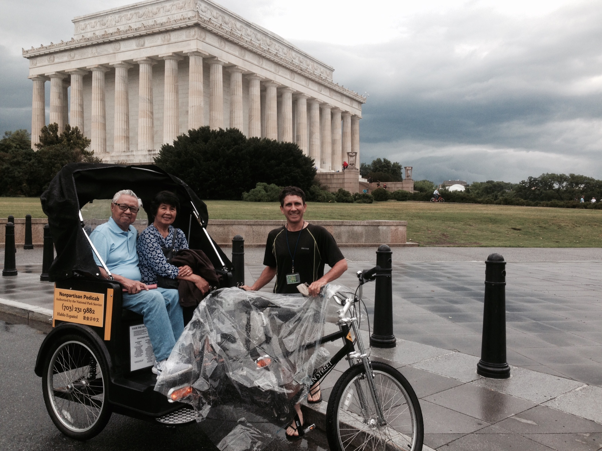 Pedicab Tour at the Lincoln Memorial